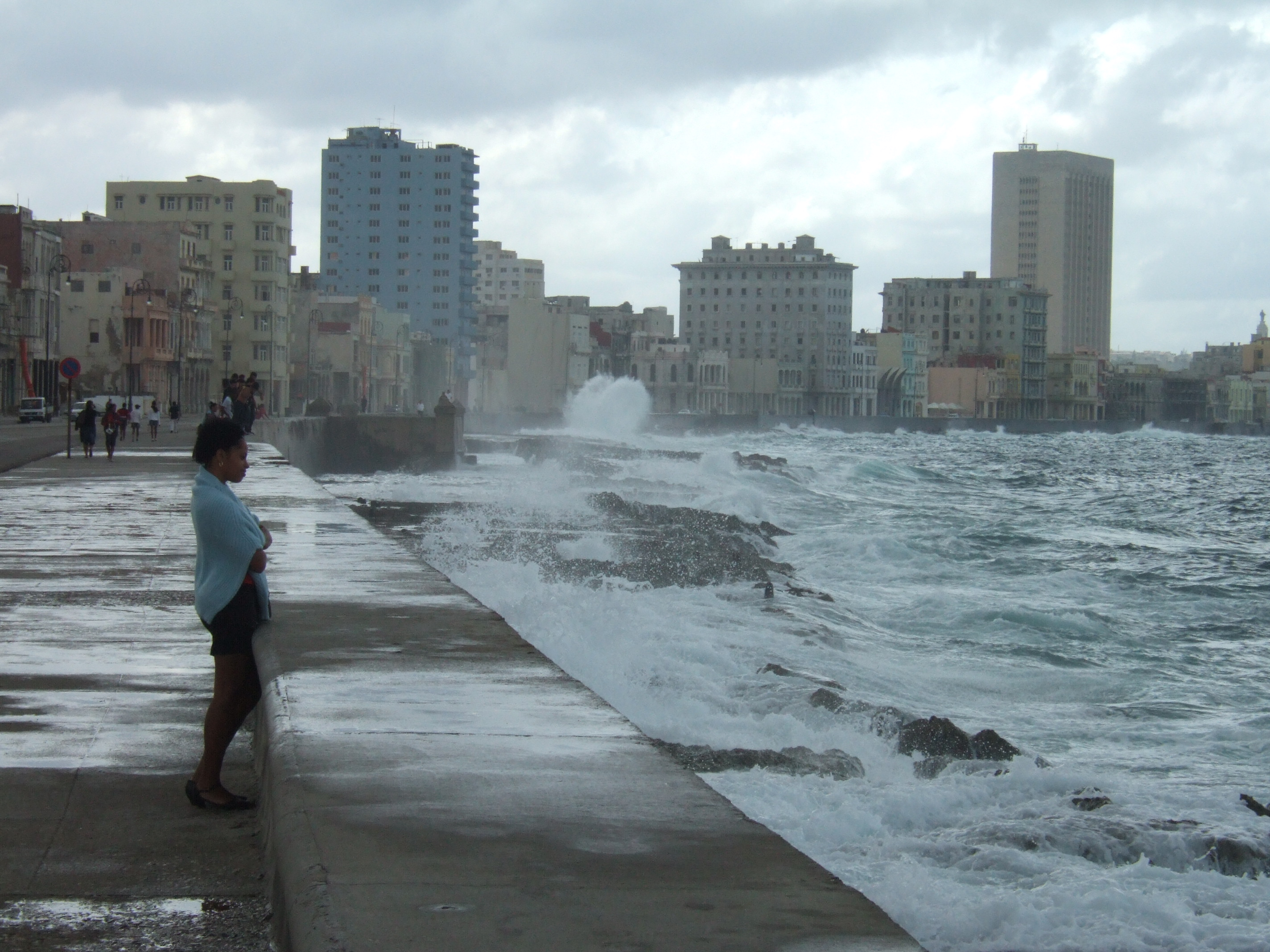 El Malecon, Havana